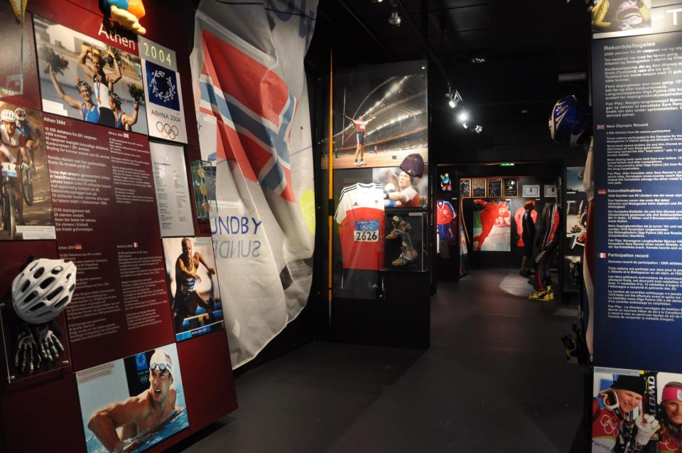 From the exhibitions at the Norwegian Olympic Museum.